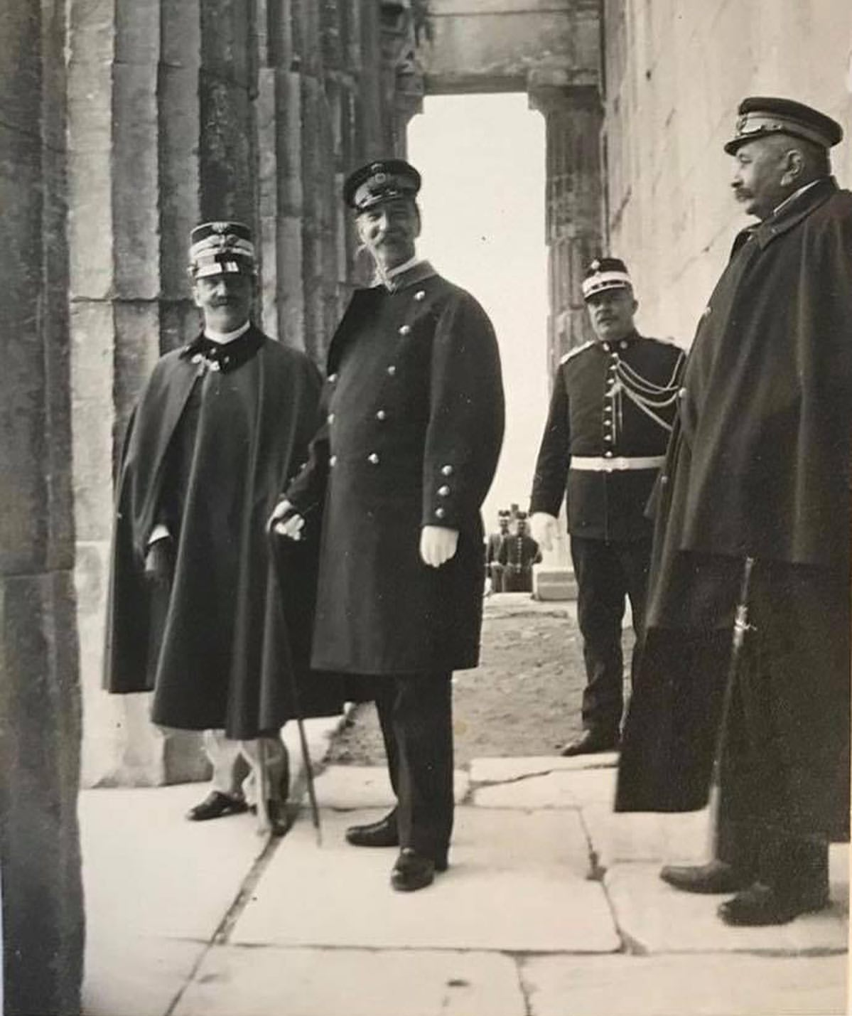 King George I of Greece and King Vittorio Emanuele III of Italy on the Acropolis in Athens